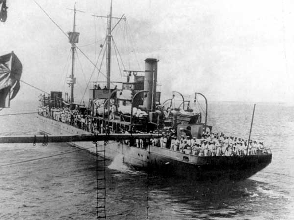 Soviet gunboat Krasnaya Gruziya.